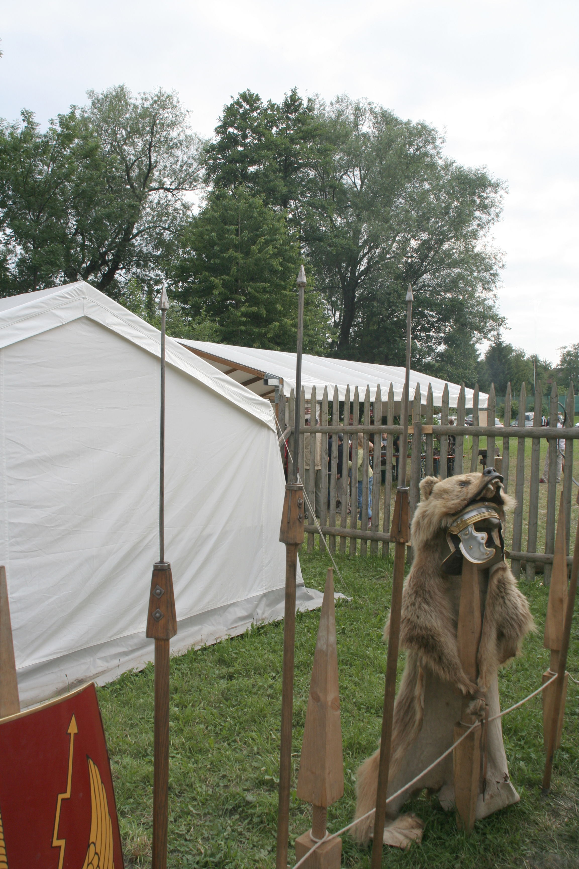 Classical roman pilum.